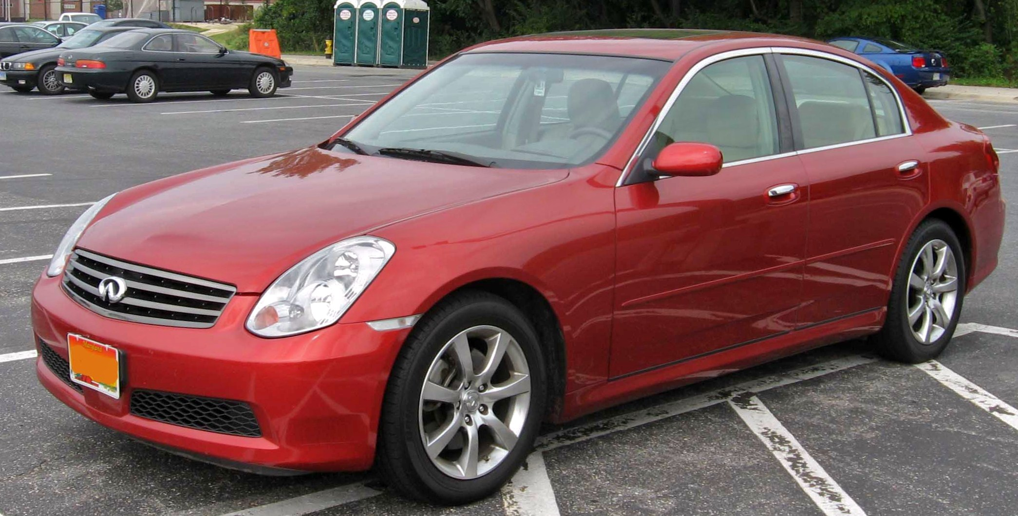 2006 Infiniti G35 photographed in College Park, Maryland, USA.